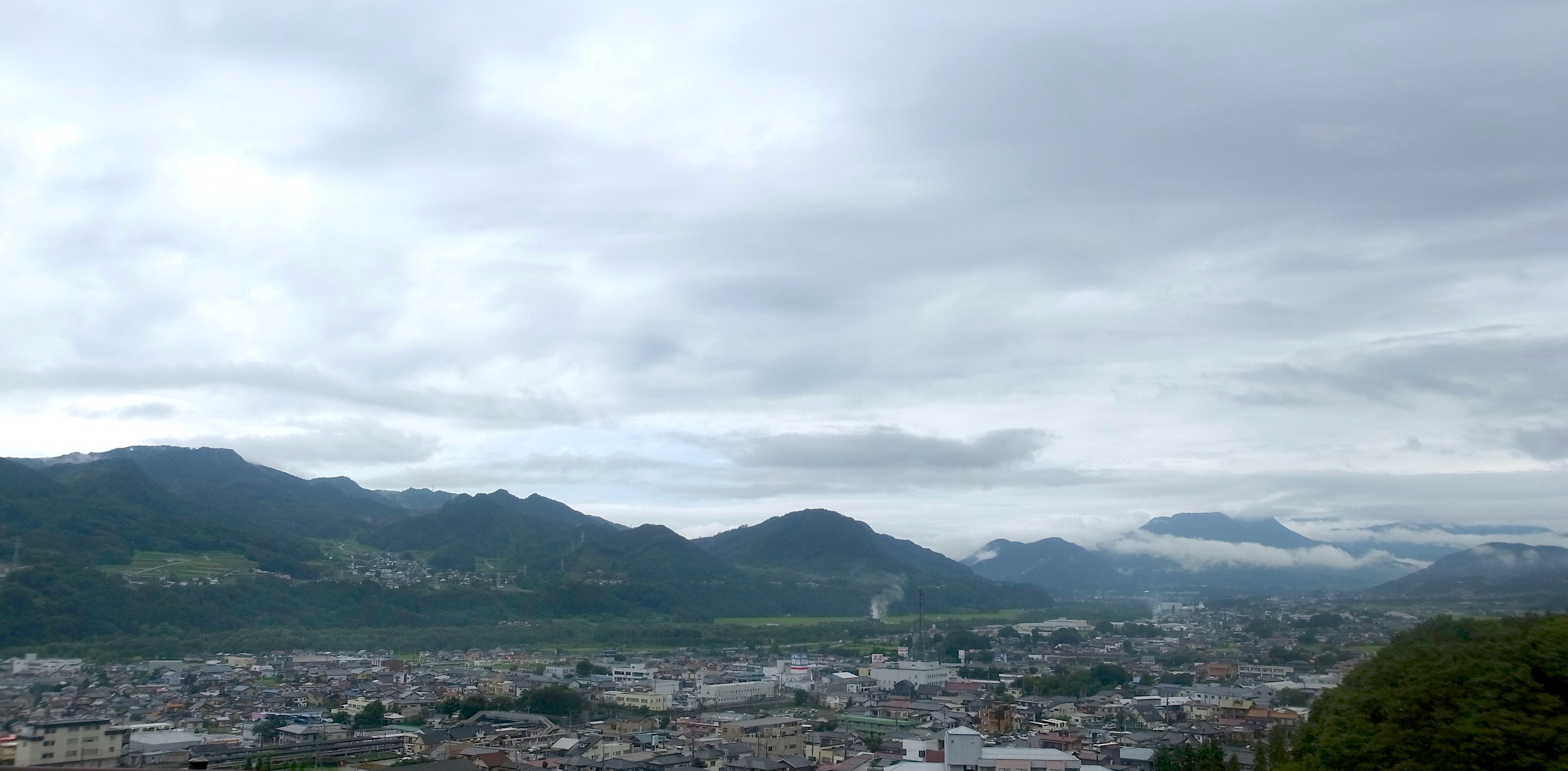 An overview of Numata in Gunma Prefecture, with Numata Station visible at the bottom left